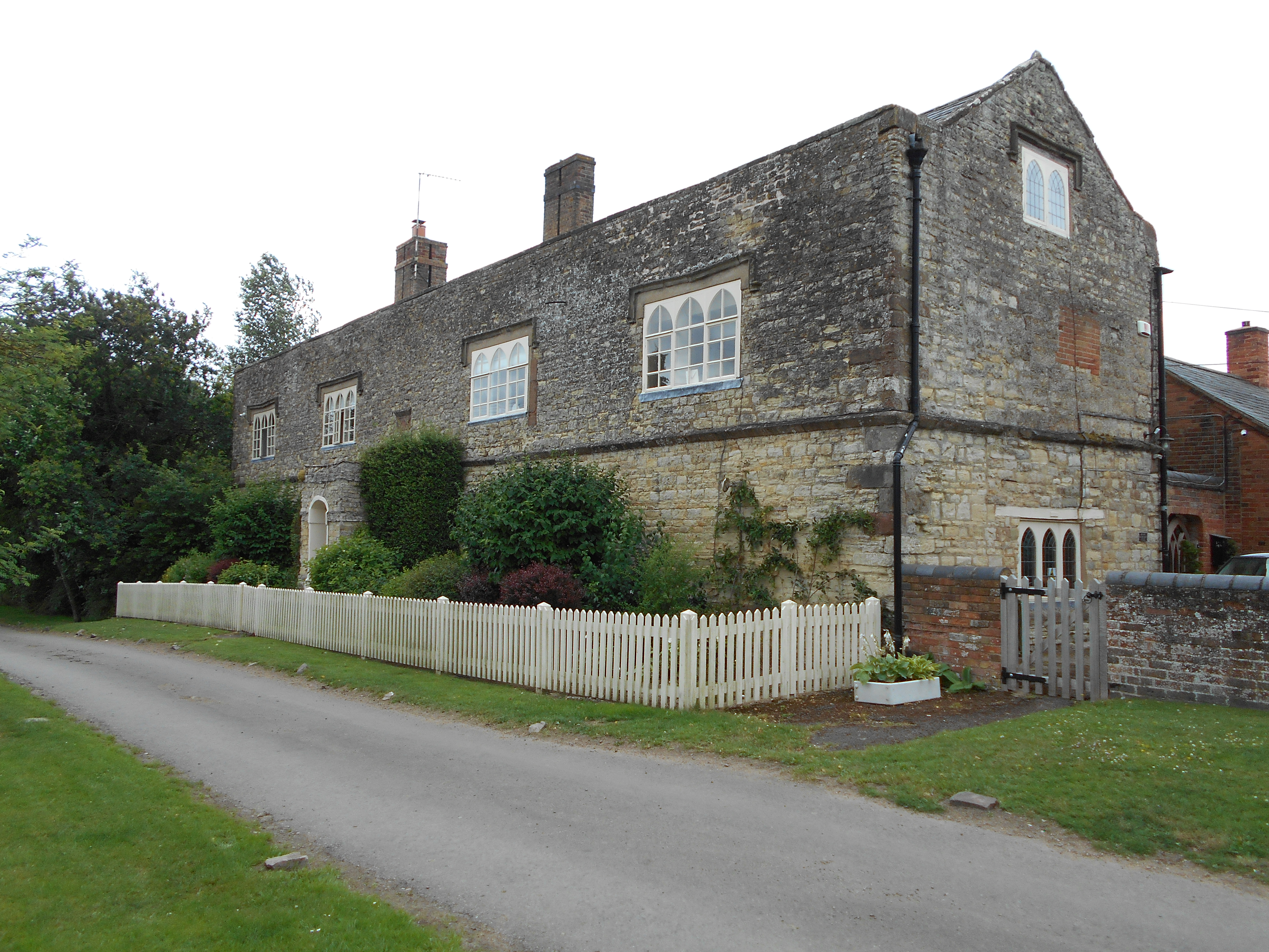 Little Lawford Hall, dating from 1604. Originally the stable block to the original Little Lawford Hall nearby, demolished around 1790.